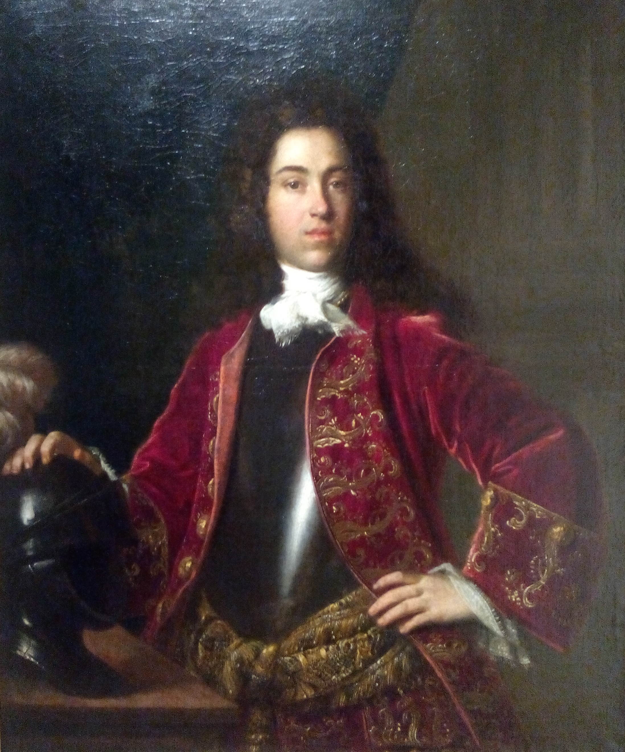 Portrait of Pedro Vicente Álvarez de Toledo Portugal, conde de Oropesa (1706-1728))